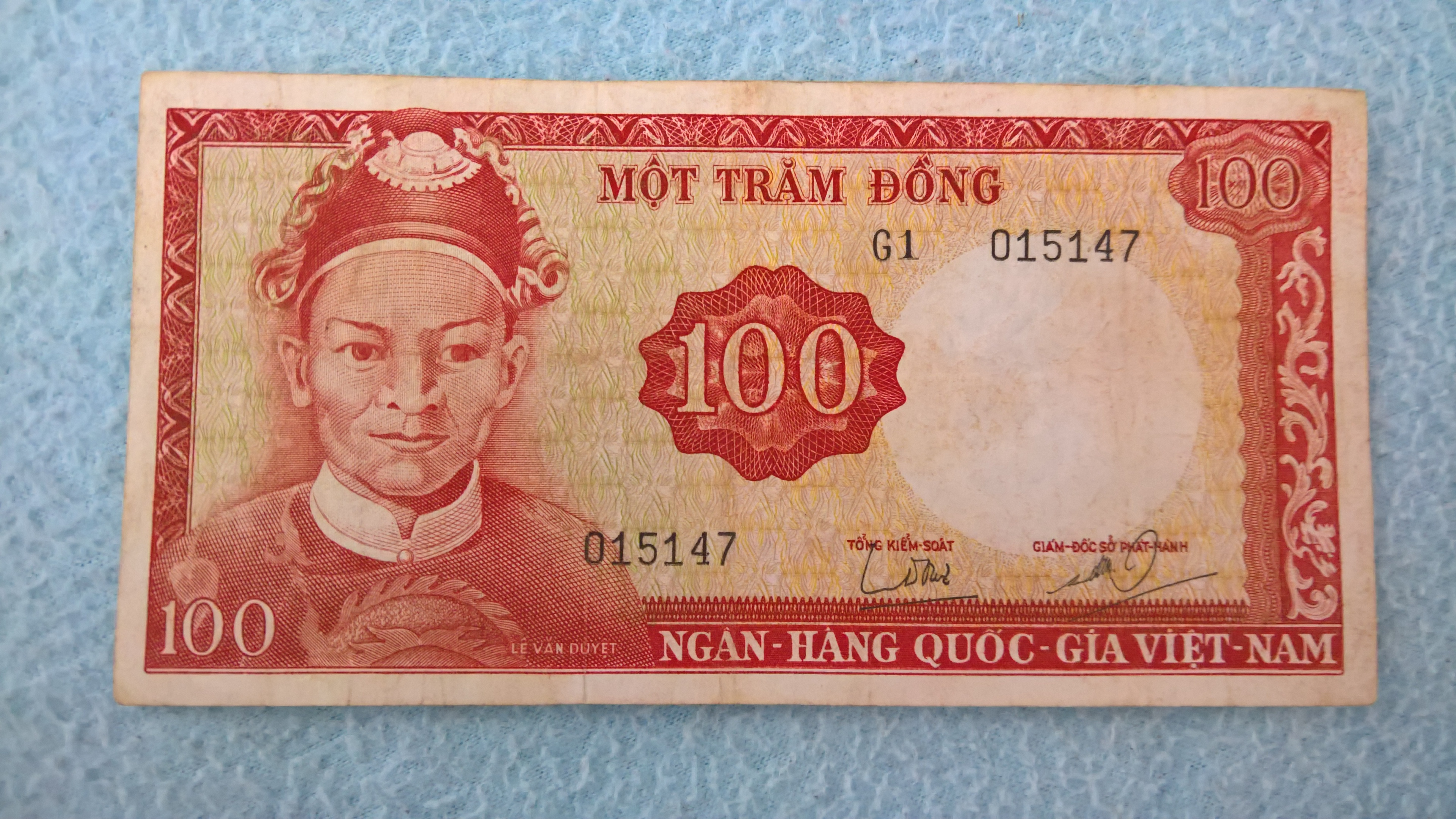 A 100 Đồng banknote South Vietnam (1966) depicting Lê Văn Duyệt (黎文悅).